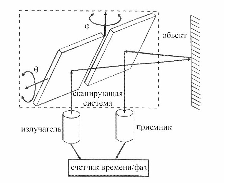 Scheme_of_phase_impulse-method